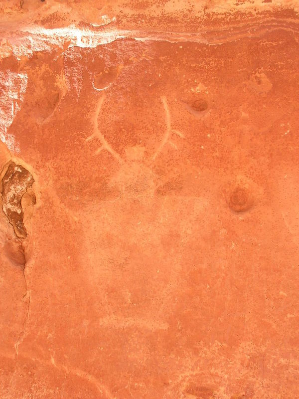 Petroglyphs in Capitol Gorge, Capitol Reef National Park.